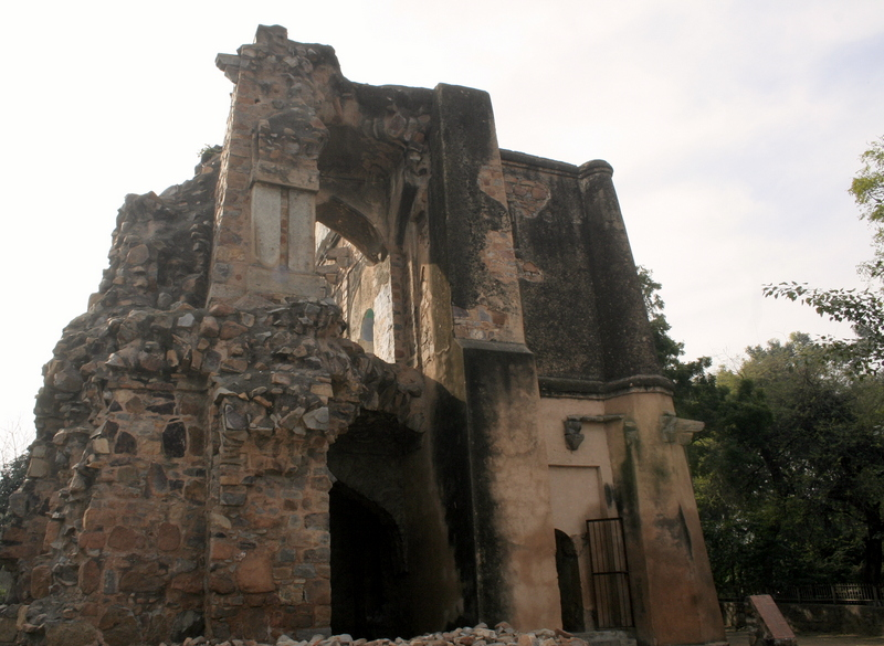 The Pirghaib to the north and near Hindu Rao's House Pir - Ghaib Observatory A 14th century hunting lodge and Observatory built by Feroz Shah Tughlak is located on Northern Ridge close Hindu Rao Hospital